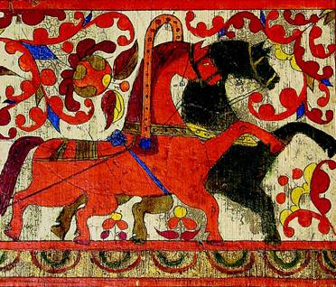 Spinning wheel board from Nizhyaya Toyma in Arkhangelsk Oblast. Fragment